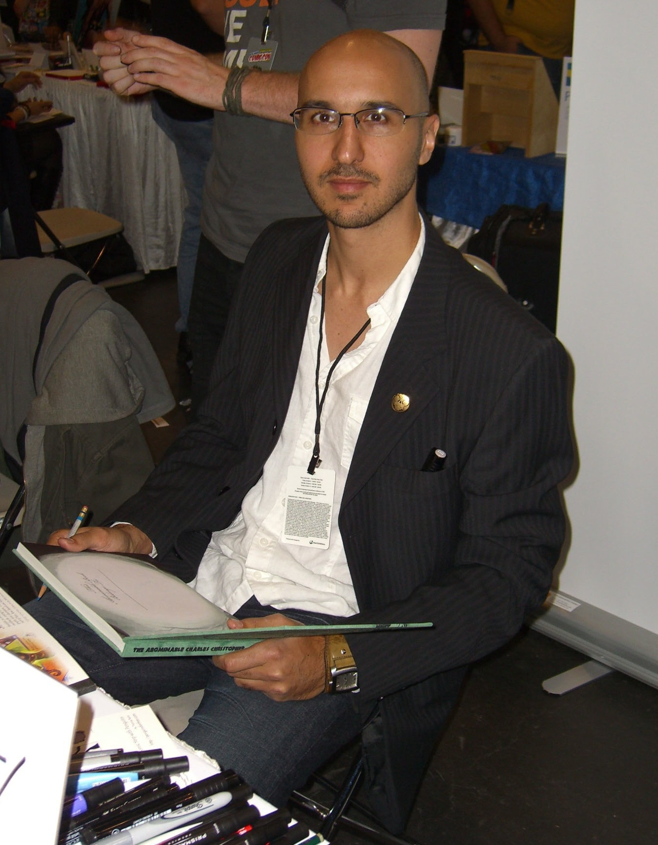 Comic book creator Karl Kerschl at the New York Comic Convention in Manhattan, October 9, 2010. Photo by Luigi Novi. This photo may be used, modified and published for any purpose, only if a easily visible credit to the photographer is placed near the photo in each instance in which it is used. (See licensing information below.) Publication of this photo without this proper attribution constitute copyright infringement. For more information on my photos, you can contact me here.